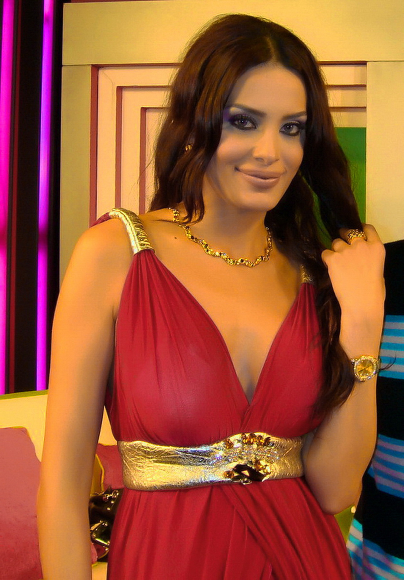 Dominique Hourani - 2010 - Beirut